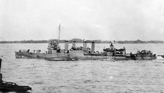 The U.S. Navy Clemson-class destroyer USS Pope (DD-225) in Surabaya in company with HMS Exeter, shortly before her loss, circa in February 1942.